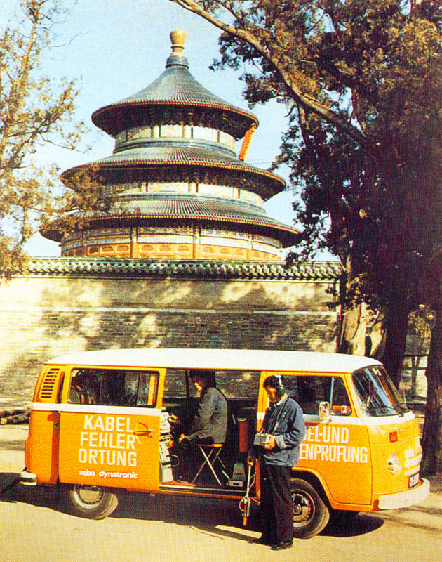 Übergabe des Seba-Dynatronic-Kabelmesswagens in der Volksrepublik China.